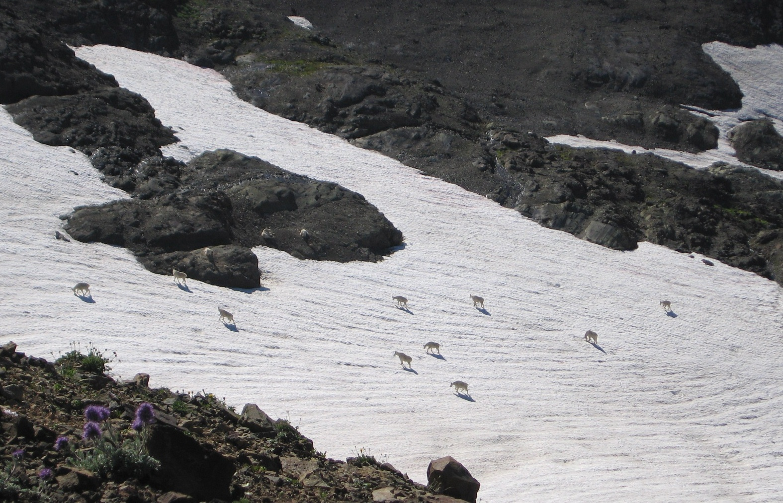 Along the PCT